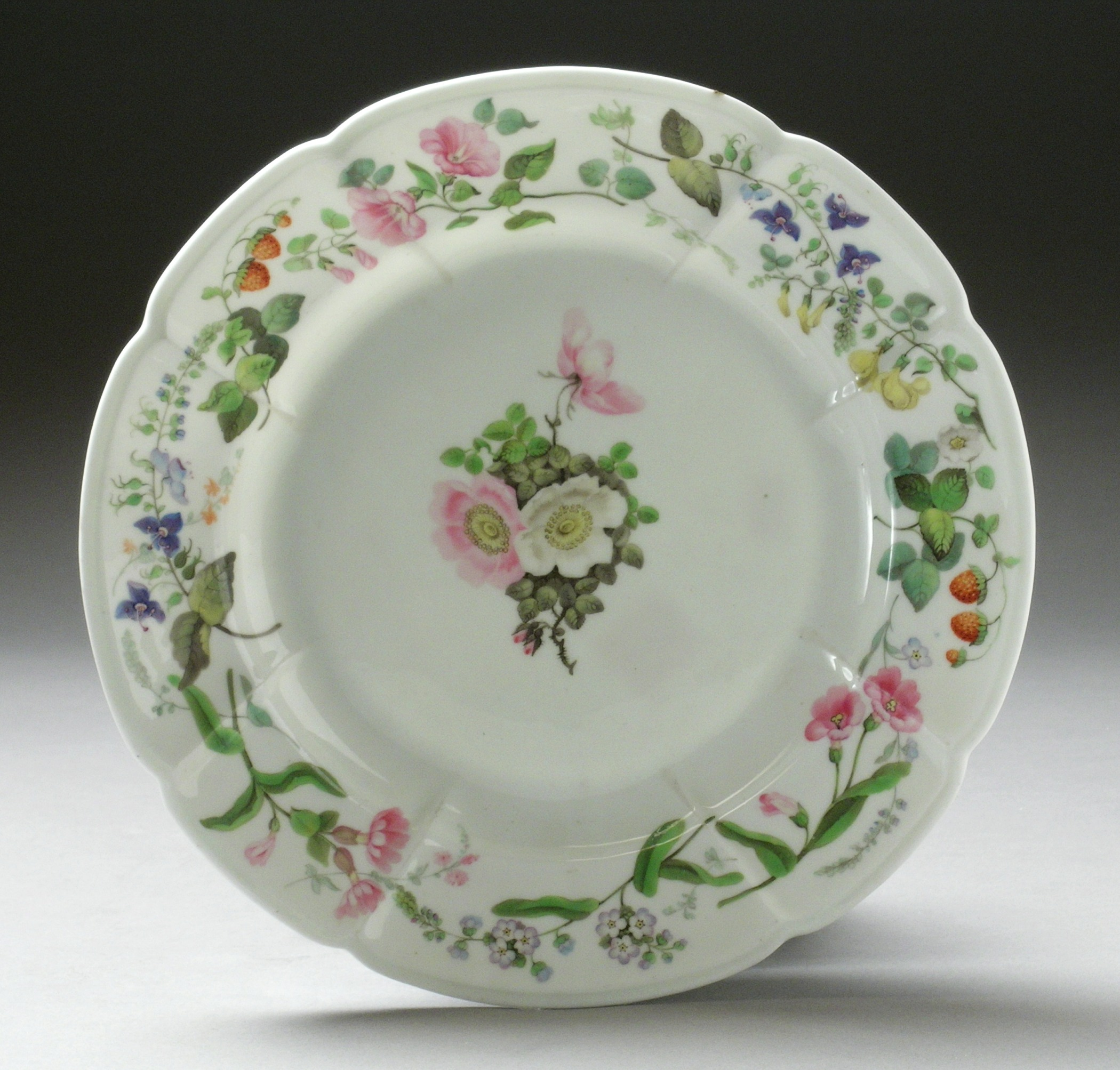 England, circa 1817 Furnishings; Serviceware Porcelain Gift of Mr. Walter T. Wells (55.101.4b) Decorative Arts and Design